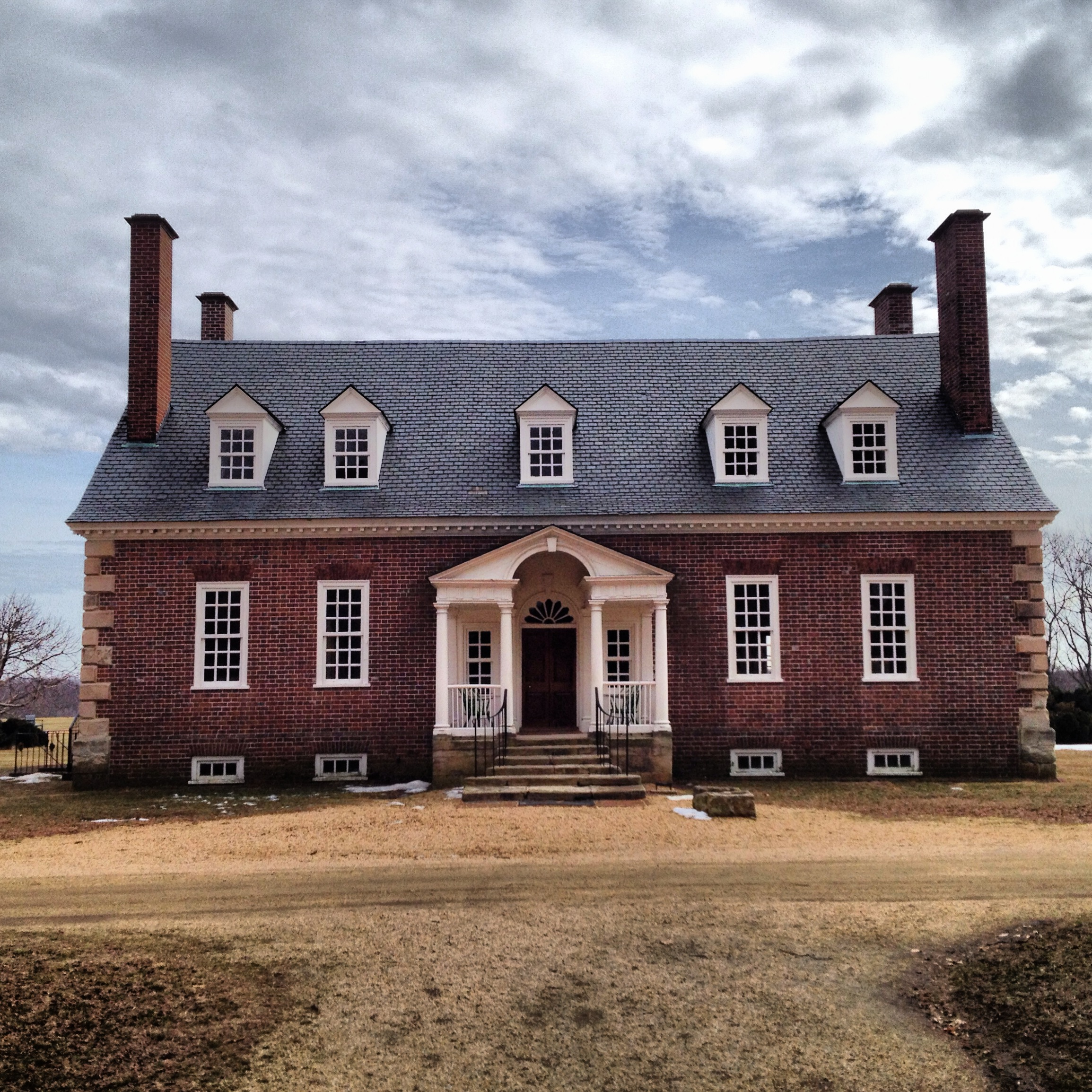 Gunston Hall, photographed on February 2, 2014.